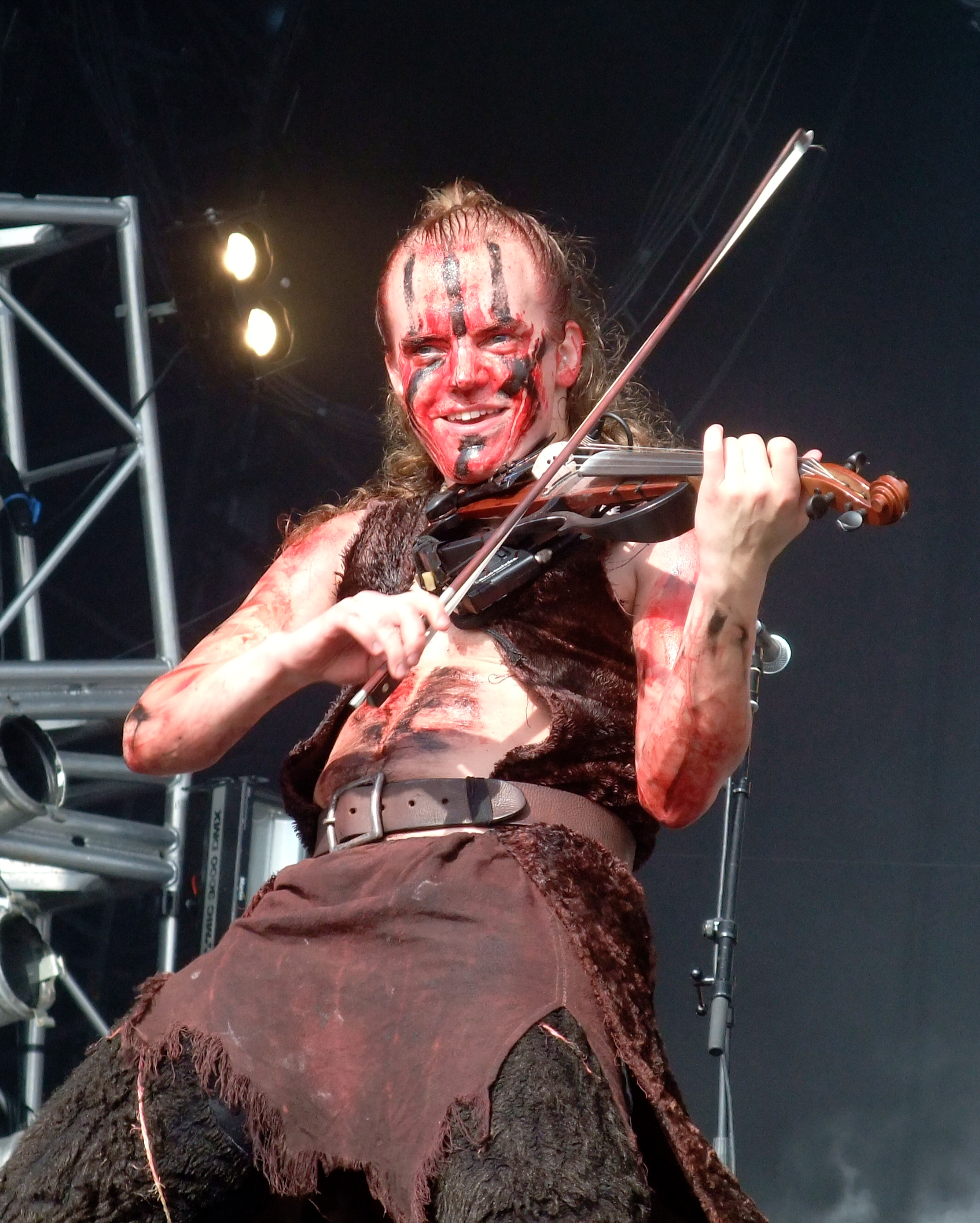 Olli Vänskä of Turisas performing at Bloodstock Open Air, 15th August 2009